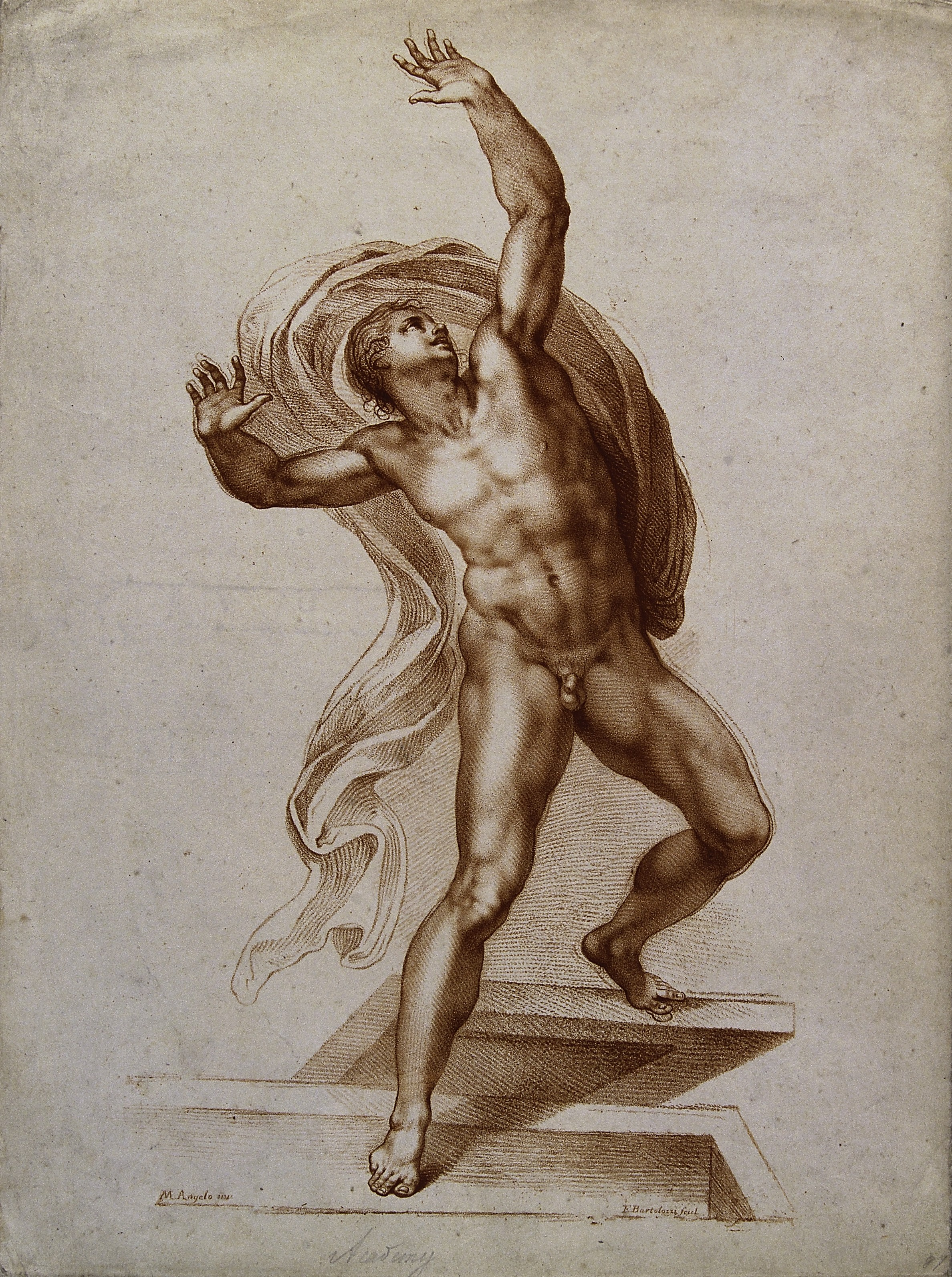 The risen Christ. Soft ground etching by F. Bartolozzi after M. Buonarroti. Iconographic Collections Keywords: Michelangelo Buonarroti; Francesco Bartolozzi